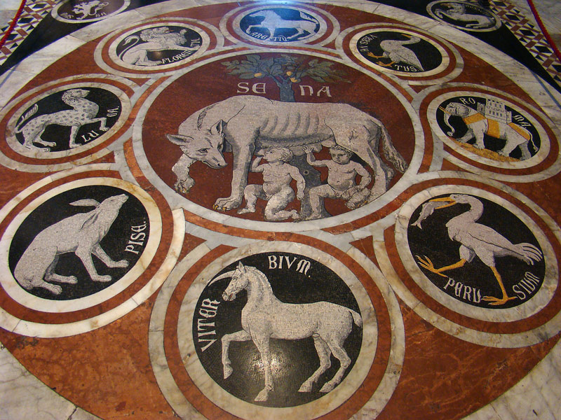 Duomo, Siena, Tuscany, Italy. Marble mosaic floor: The She-Wolf of Siena.